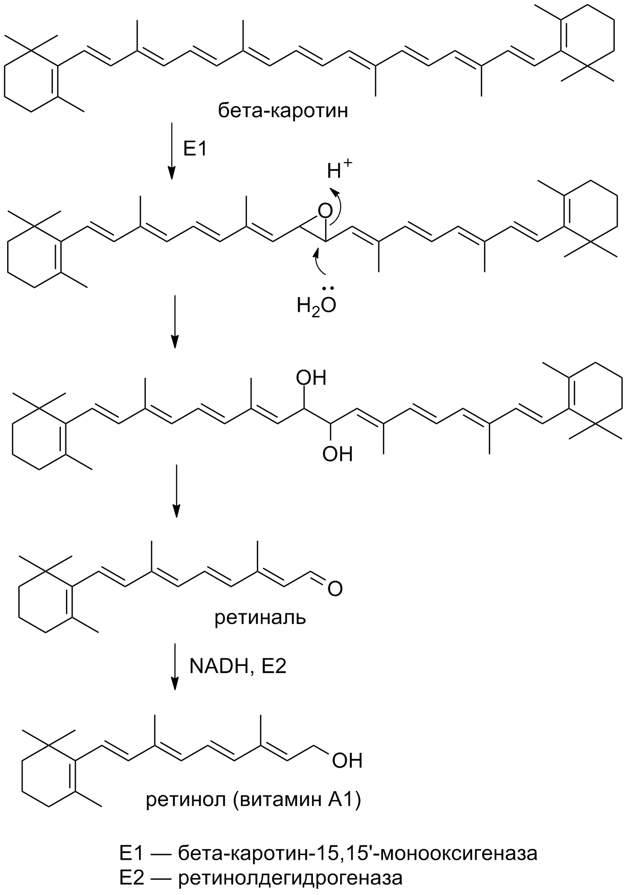 vitamin A synthesis